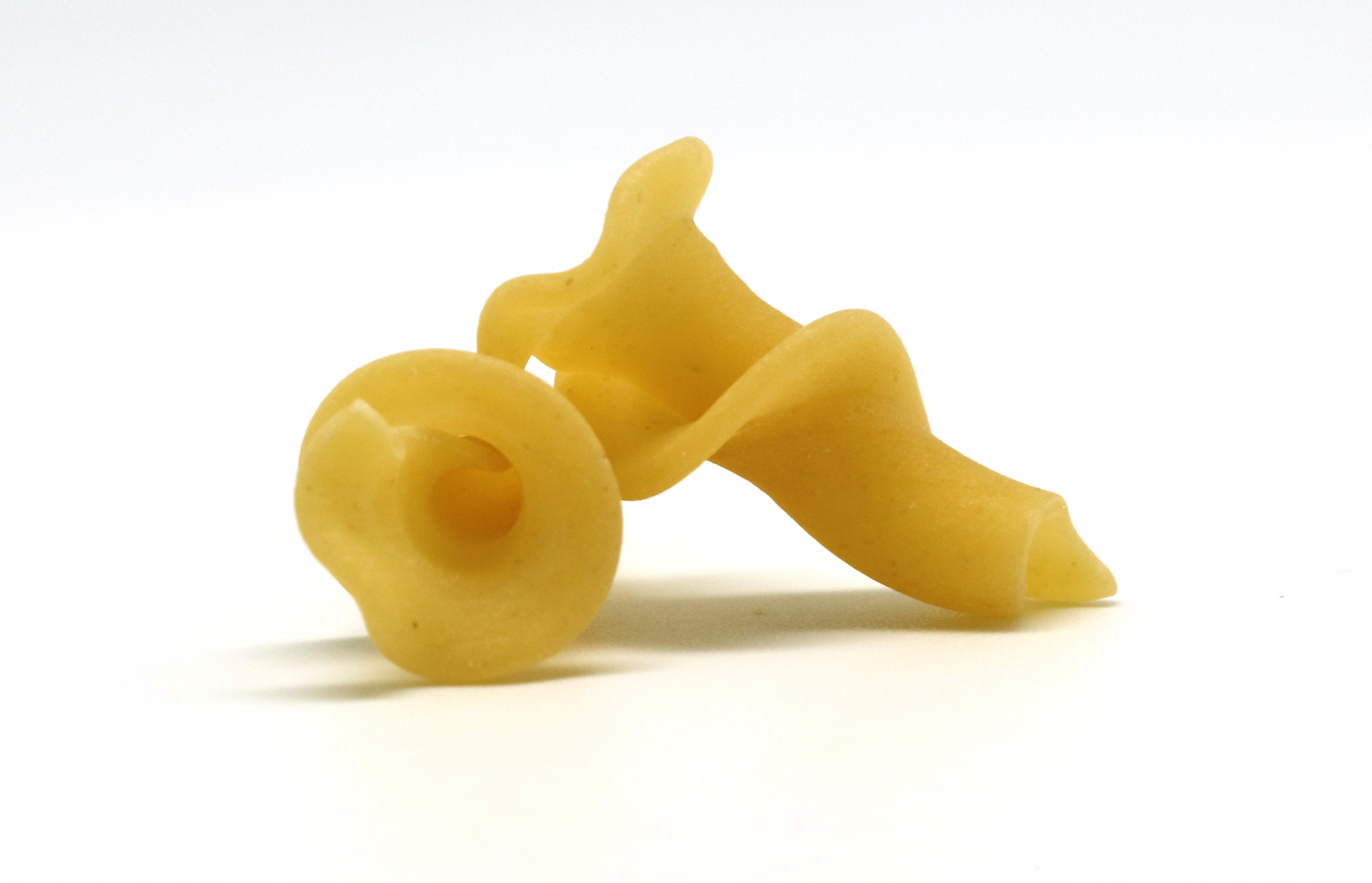 Gigli, a type of italian pasta (brand Sacla, Italy)